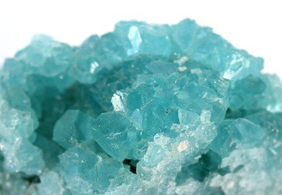 Boracite Locality: Boulby Mine, Loftus, North Yorkshire, England, UK (Locality at ) Size: 4.0 x 2.4 x 2.0 cm. GEMMY, sharp green-blue boracite crystals from this important find of the early 1990s …a beautiful specimen for the size, with top quality crystals to 2.5 mm. Ex. Charlie Key Collection.